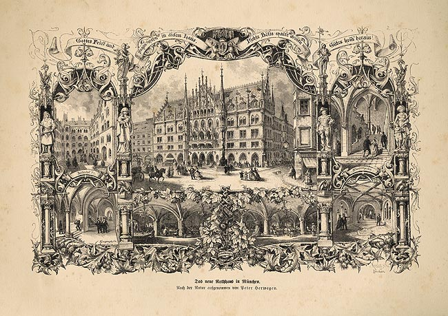 The townhall in Munich